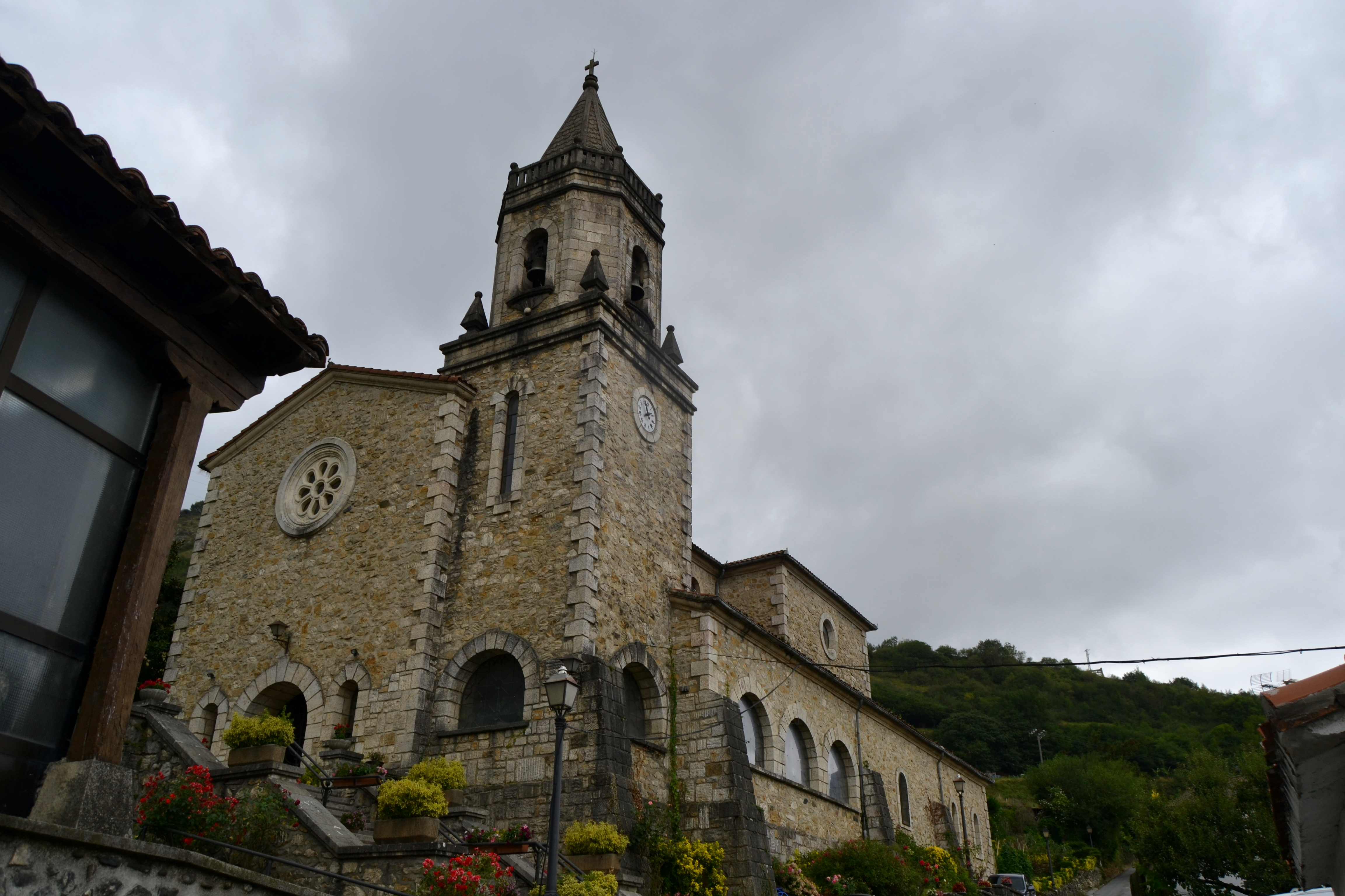 Saint Peter's church, Almandoz, Baztan. Navarre, Basque Country